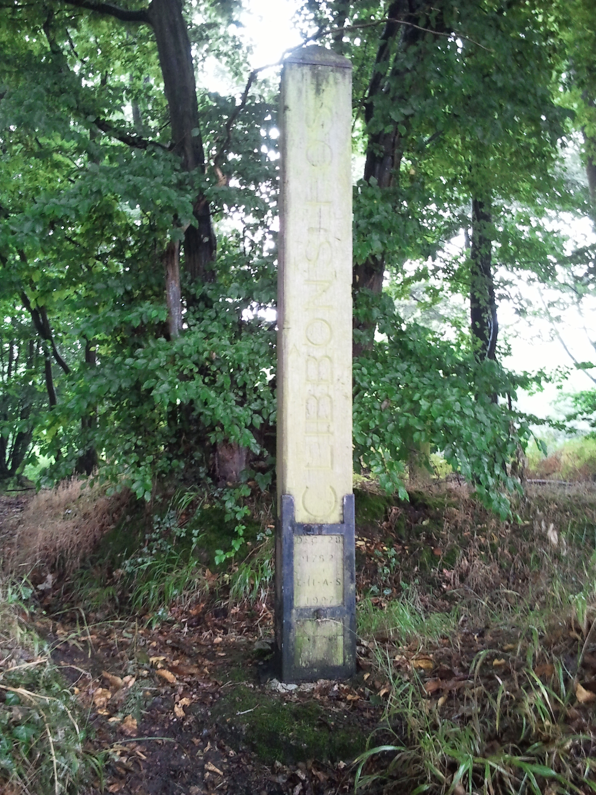 Clibbon's Post, Brickground Wood, Tewin, marks the spot where a highwayman was fatally wounded in 1782.